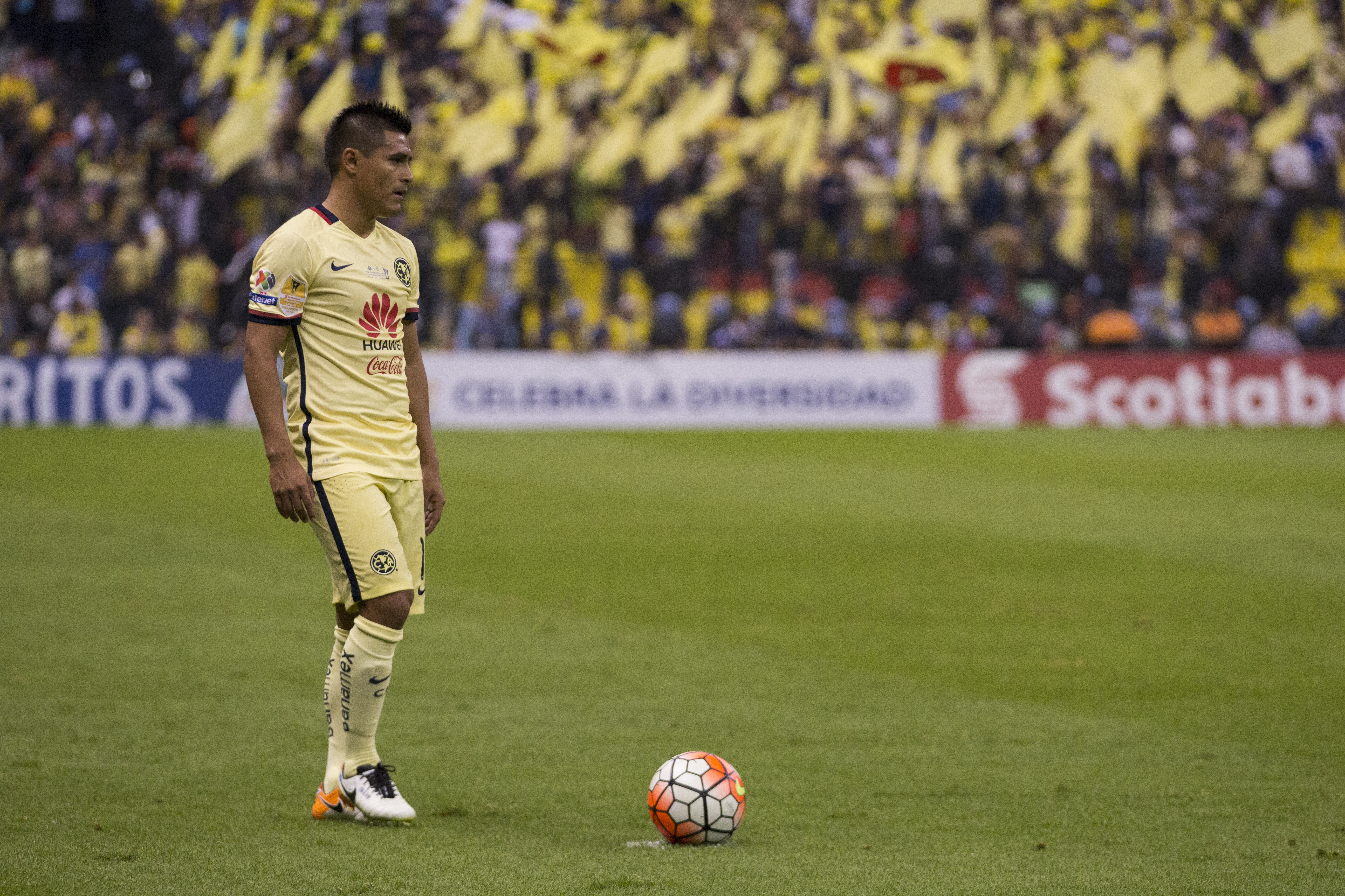 Final CONCACAF 2016